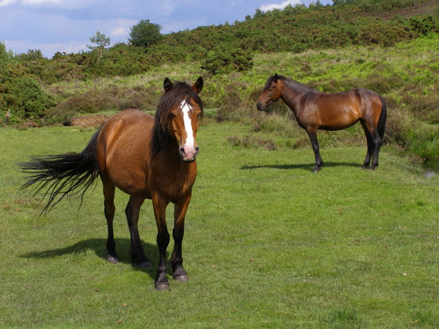 Ponies, Black Gutter Bottom, New Forest Two ponies on a stream-side lawn in Black Gutter Bottom. The stream (Black Gutter) is to the right and behind the animals. A path fords the stream here, although it is rather deep even during the drier summer months.